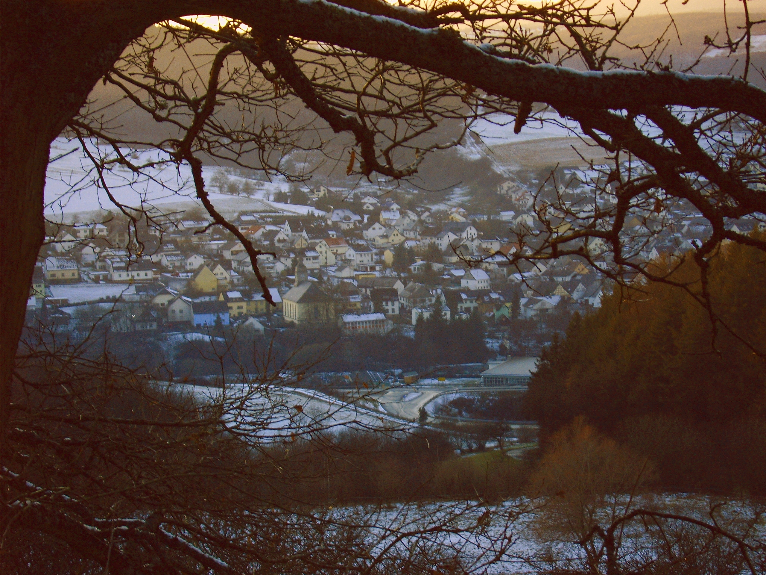 Description: View over Niederwörresbach from Kehrwald forest Source: Alexander Dreyer Site views of Niederwörresbach, Germany, Photographed by myself, dec. 2005